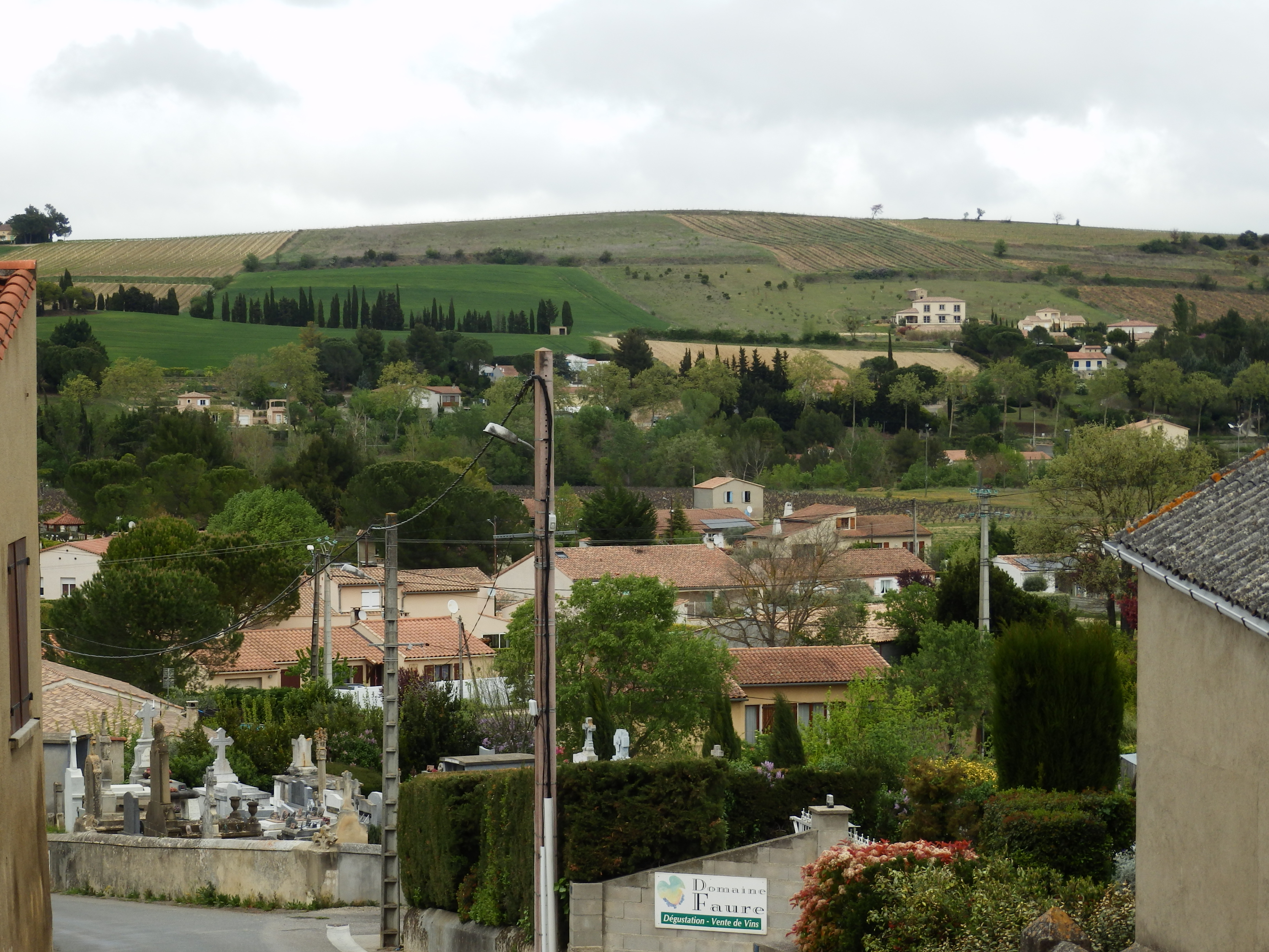 View of La Digne-d'Aval, Aude, France